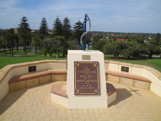 This Monument is located in Fremantle to memorize those who served in the Royal Navy for the defence of Australia during World War II.